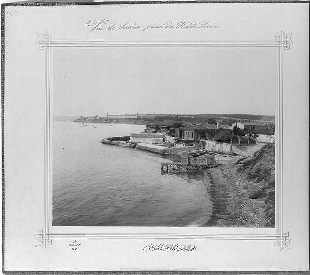 View of the area of Üsküdar from Kadıköy between 1880 and 1893